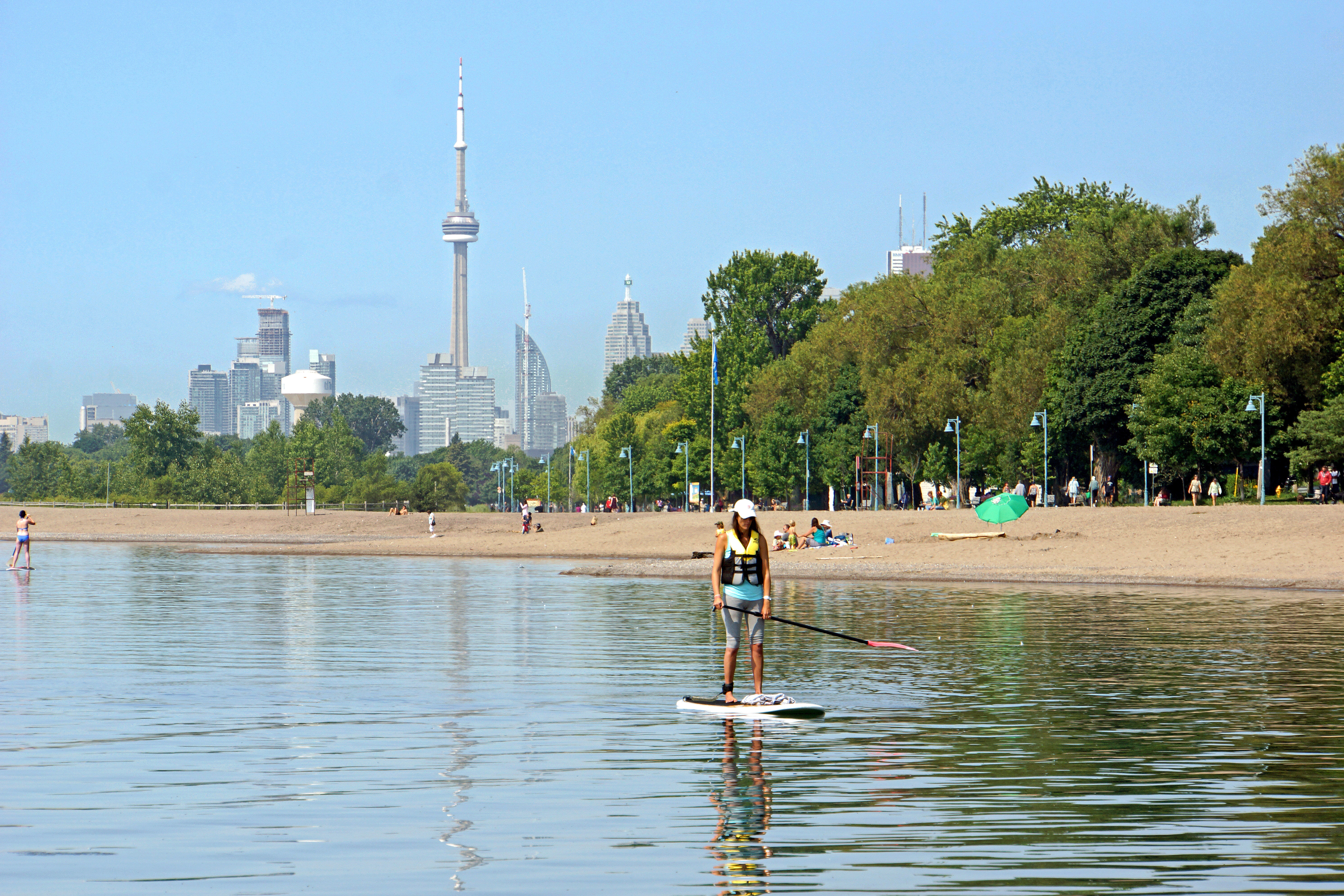 PLEASE, NO invitations or self promotions, THEY WILL BE DELETED. My photos are FREE to use, just give me credit and it would be nice if you let me know, thanks. Greater Toronto Area’s most diversified and happening waterfront entertainment location. With several kilometres of boardwalk surrounded by sandy beach, scores of volleyball nets and a lakeshore breeze giving you a clear view of the lake and watercraft of all types. it is one of the most sought-after areas in the city and a place where locals and tourists alike, flock to for a relaxing evening walk, some good entertainment or just to look out on the serene waterfront.